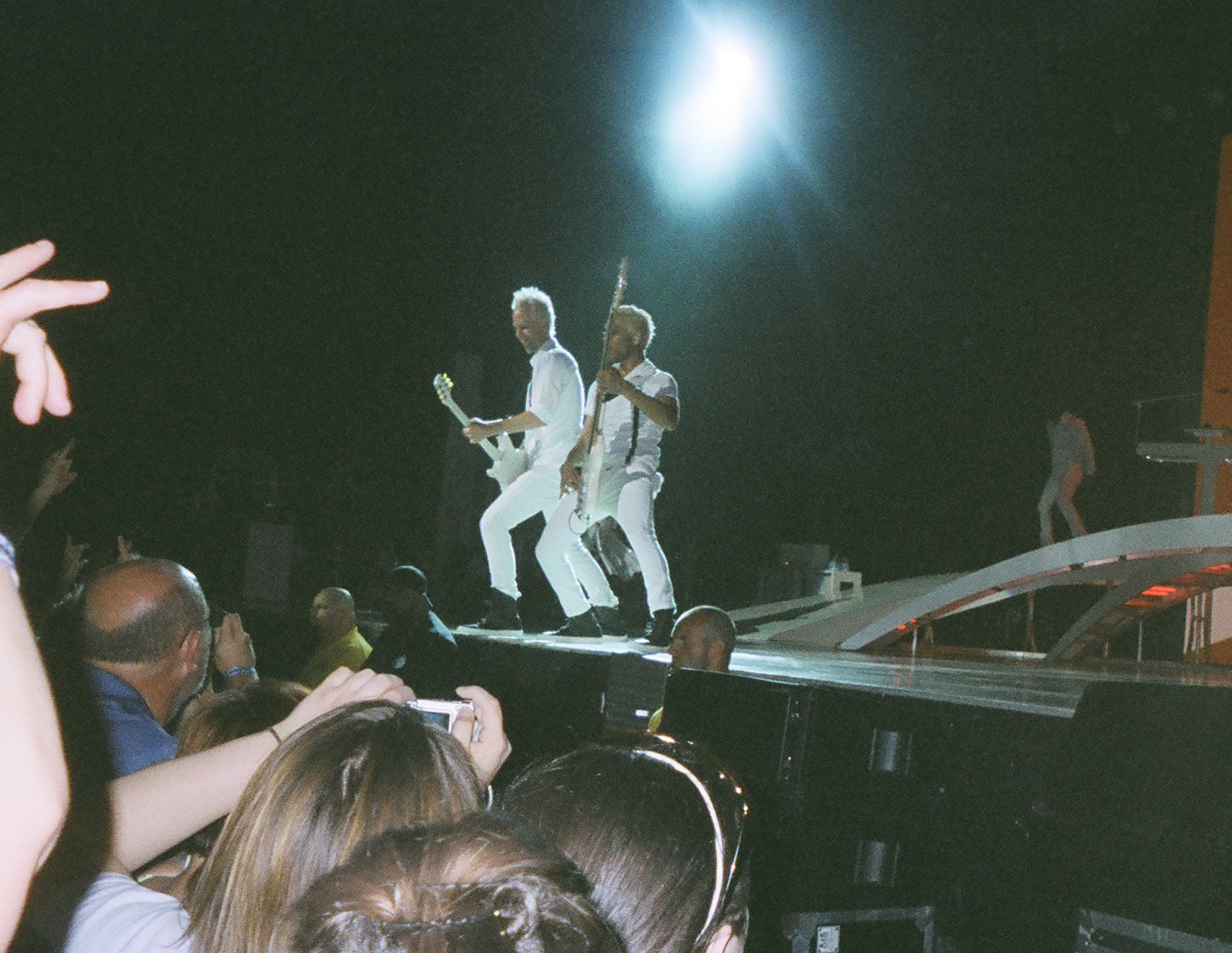 Tom Dumont, along with Tony Kanal, during No Doubt's 2009 summer reunion tour at the White River White River Amphitheatre in Auburn, WA.